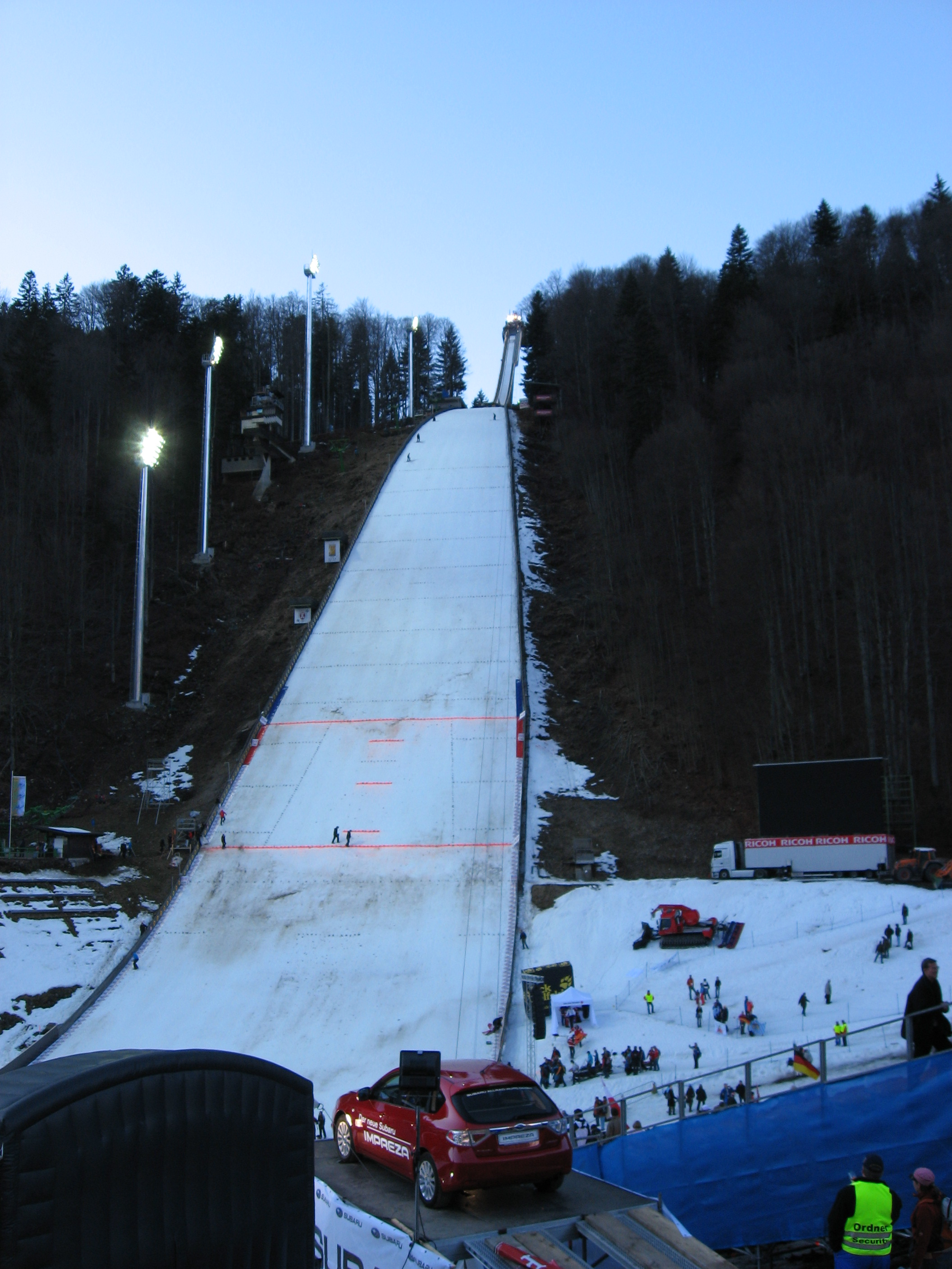 Heini Klopfer Skiflugschanze (Oberstdorf, Germany) during the 2008 Ski Flying World Championships